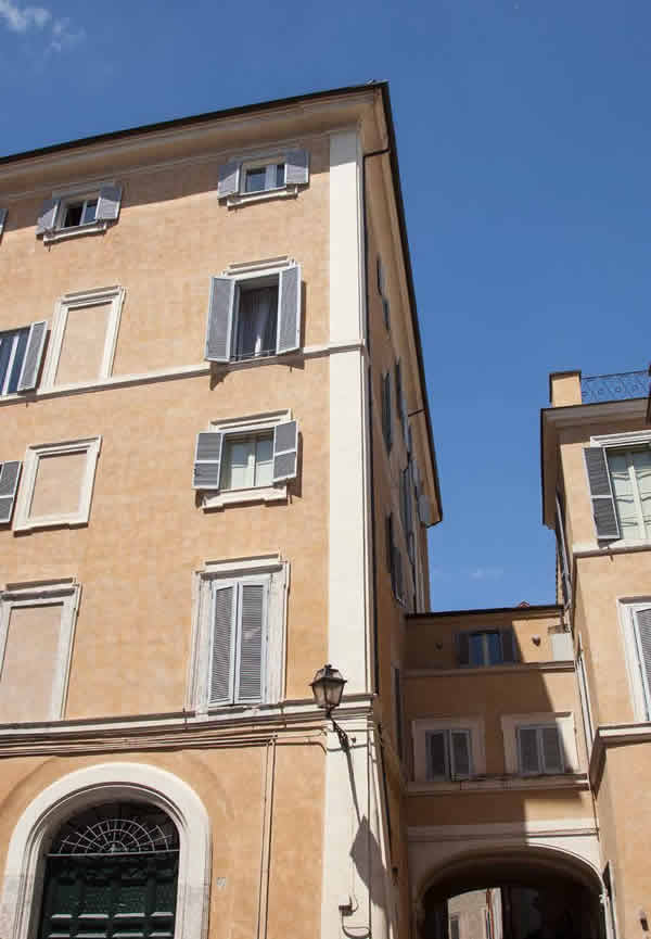 the connection beetwen the two bodies of the building (view from Capizzuchi square)